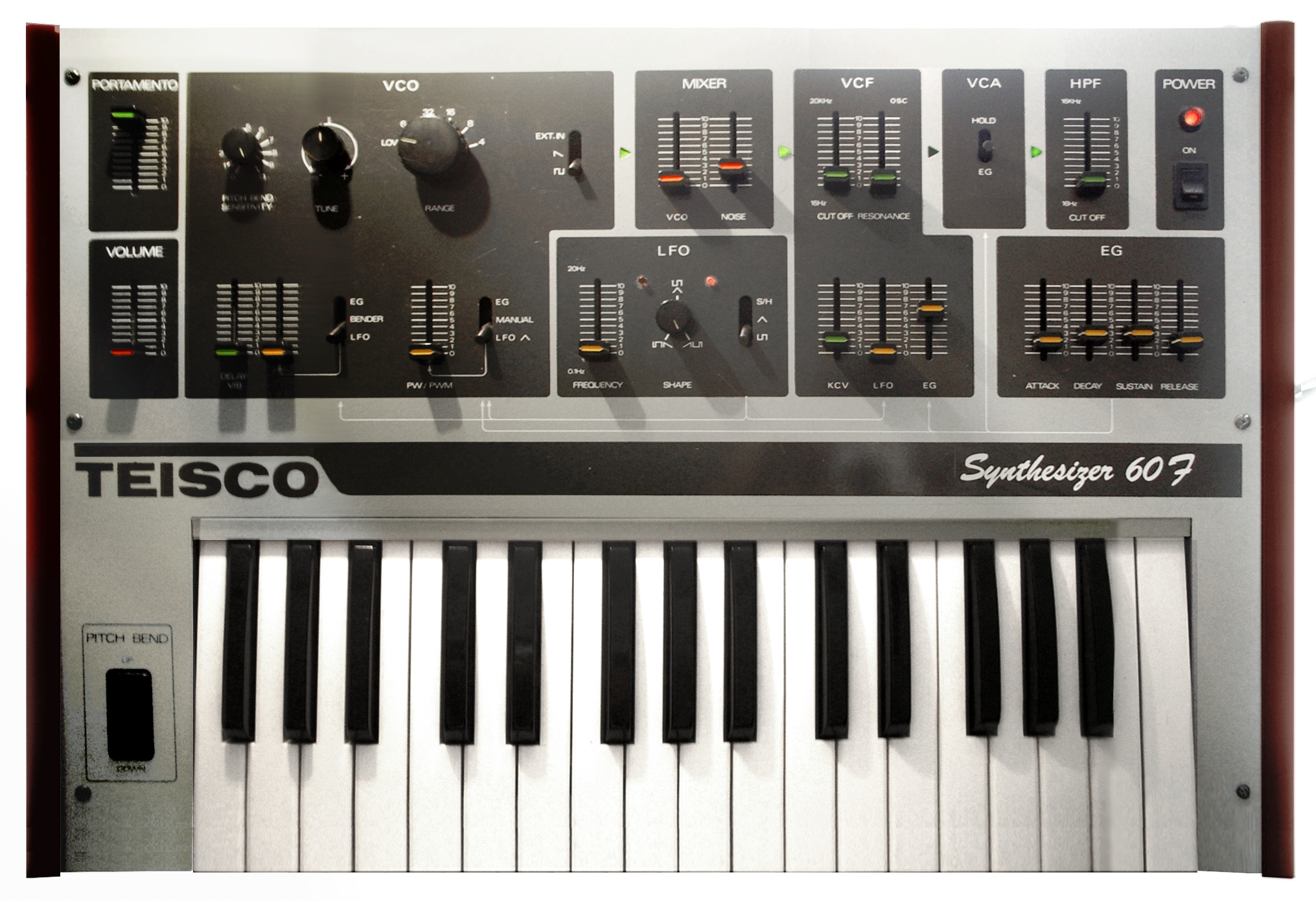 Teisco Synthesizer 60F Teisco S60F (front-left) uploaded using Flickr upload bot from altemark@Flickr Teisco Synhesizer 60F (front-right) uploaded using Flickr upload bot from altemark@Flickr